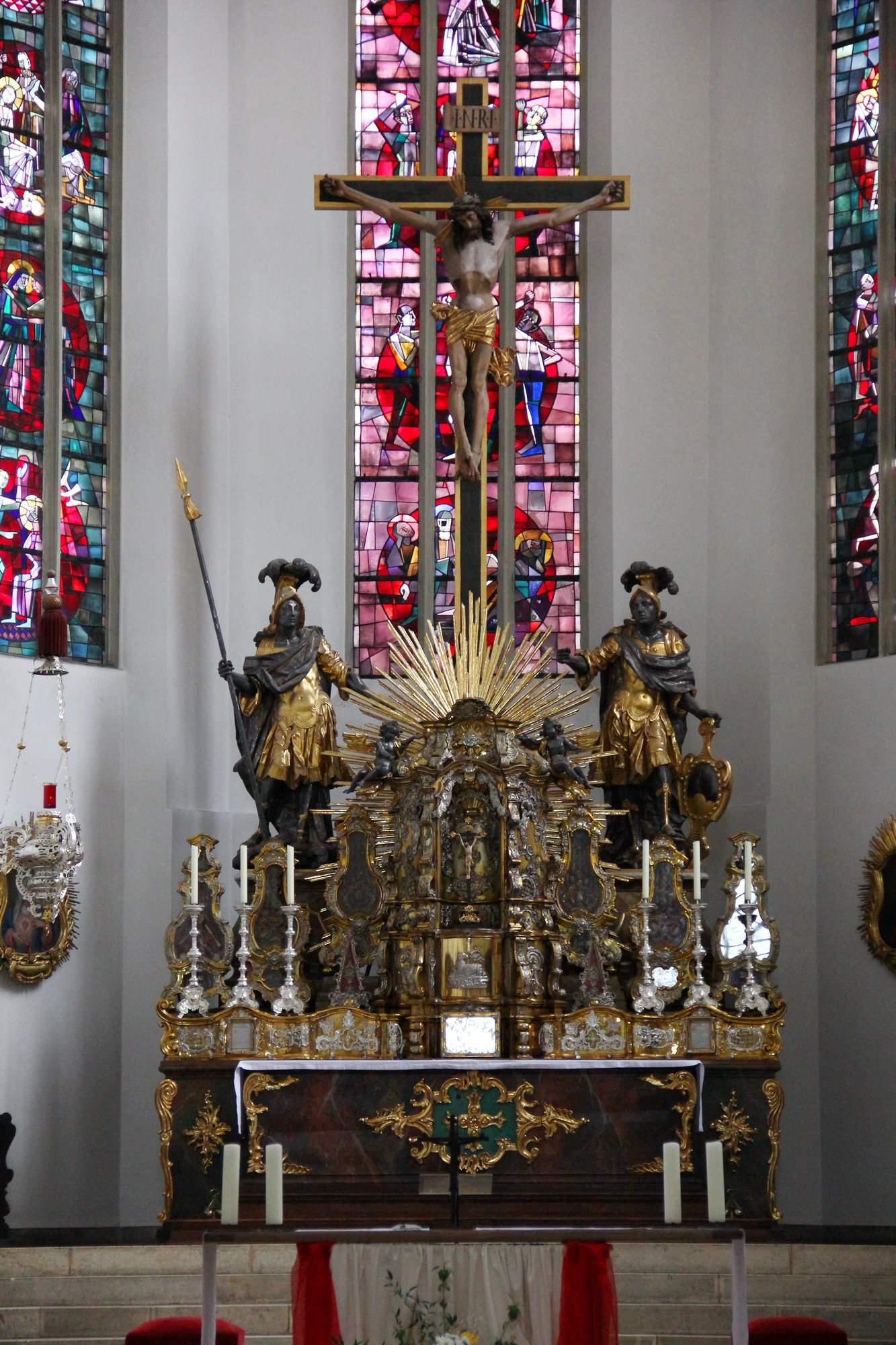 The Main altar Pfarrkirche Sankt Moritz, Ingolstadt Native nameMoritzkircheLocationIngolstadt, GermanyCoordinates48° 45′ 48.96″ N, 11° 25′ 28.92″ E Established9cAuthority control : Q1492013 VIAF: 267326773 LCCN: n78080722 GND: 4362251-3 WorldCat institution QS:P195,Q1492013